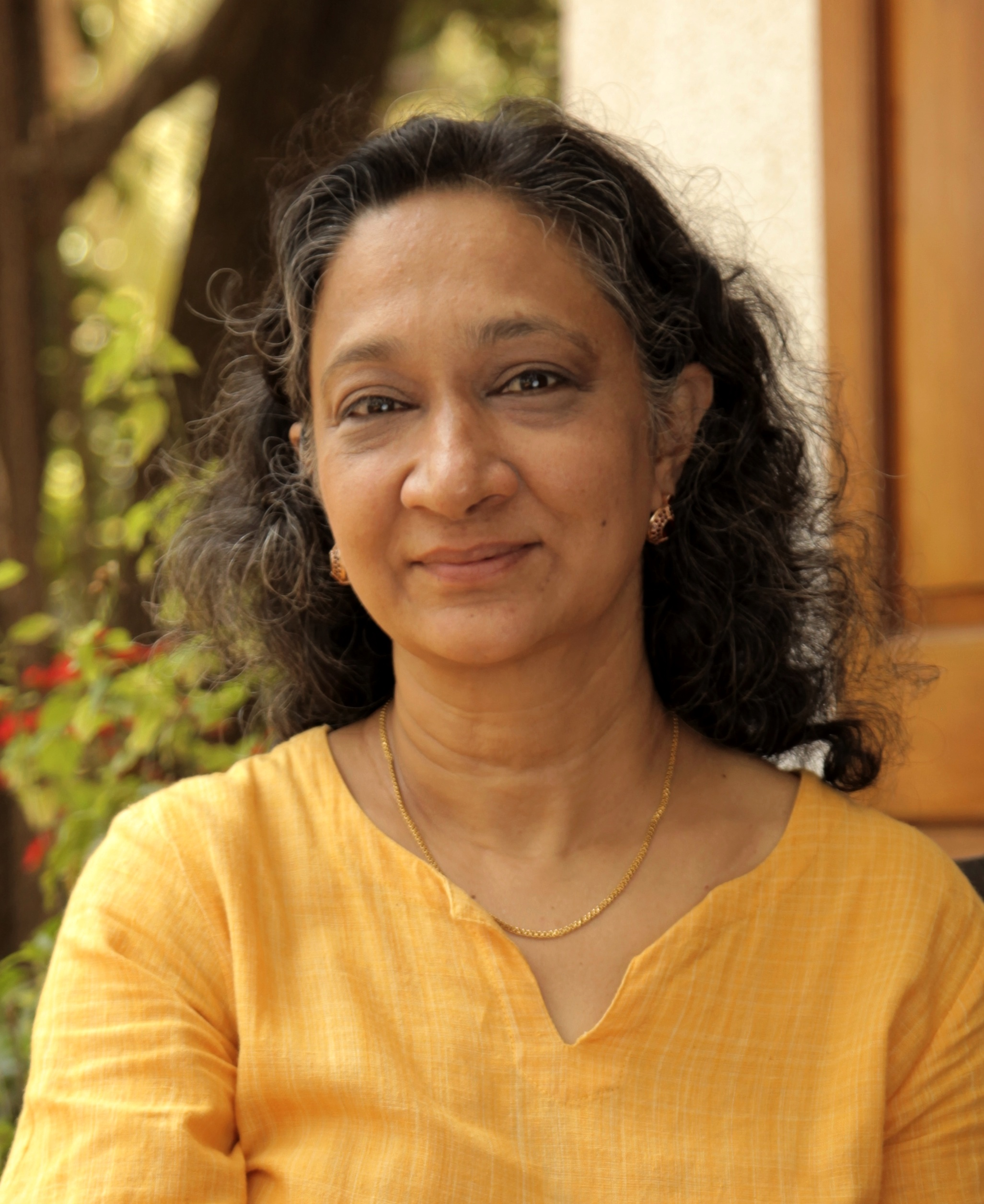 Sumaira Abdulali (born 22 May 1961) a well-known environmentalist from Mumbai, India and founder of the NGO- Awaaz Foundation and Convenor of the Movement against Intimidation, Threat and Revenge against Activists (MITRA).